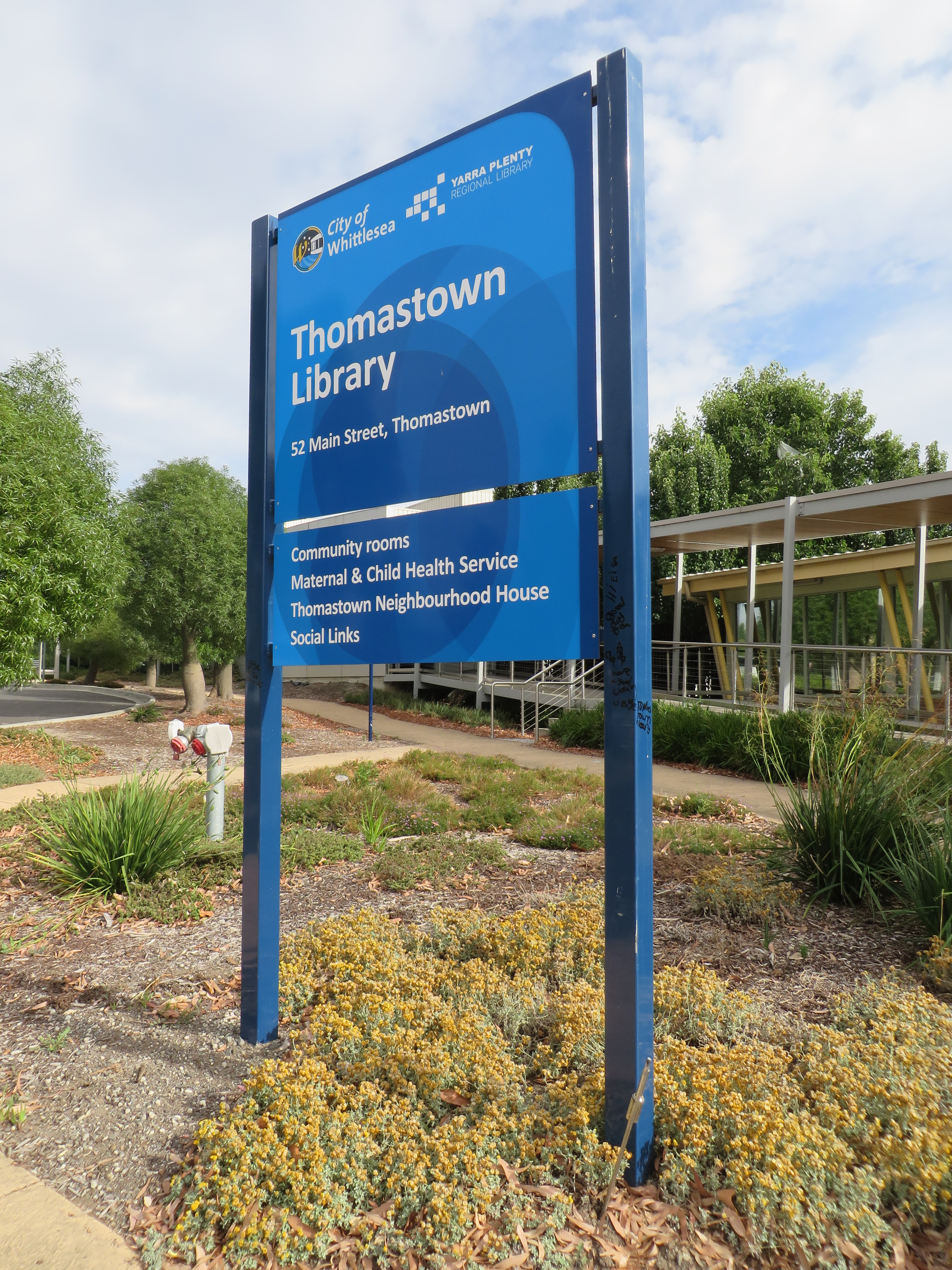 Sign in front of Thomastown Library, Victoria, Australia